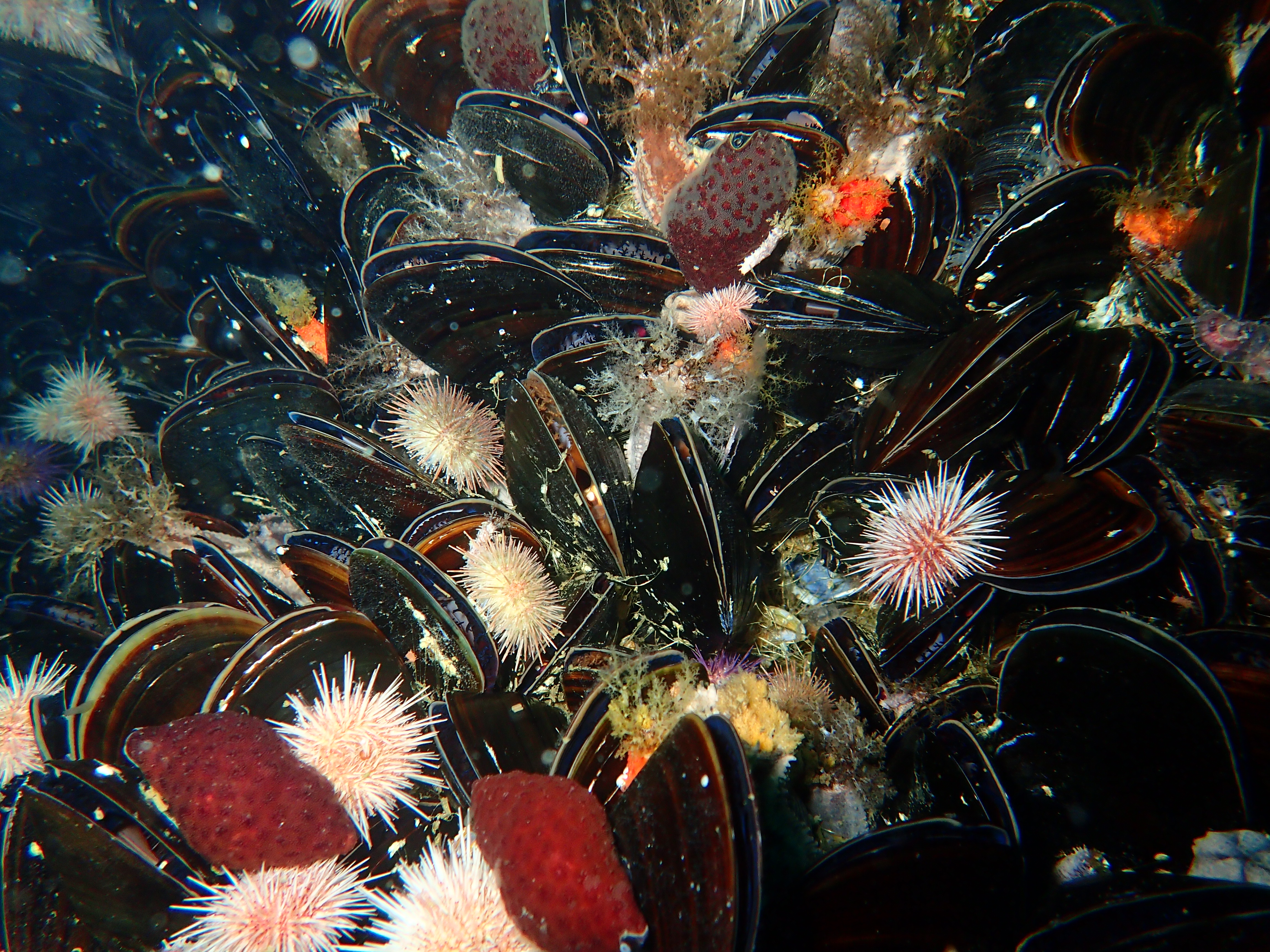 Black mussels (possibly Mytilus galloprovincialis) at Giant's Castle pinnacle